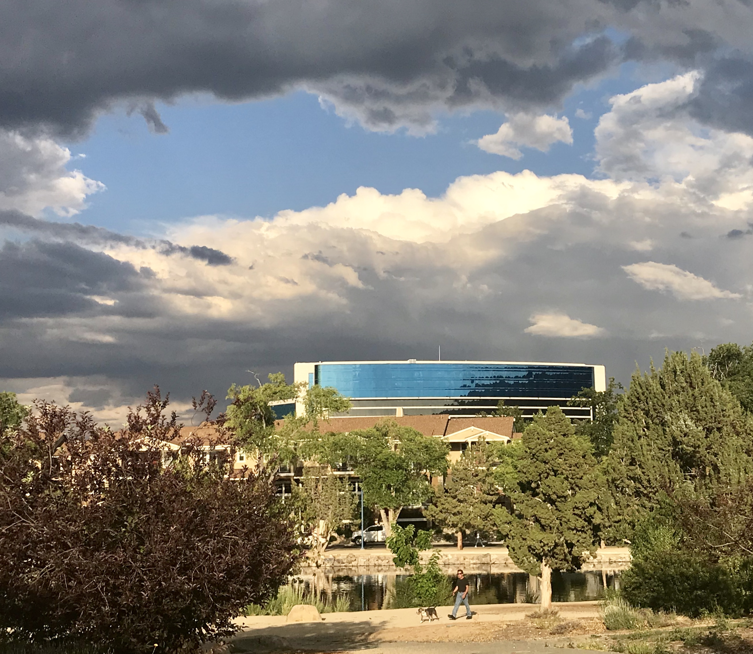 Virginia Lake Reno Nevada USA walking dog